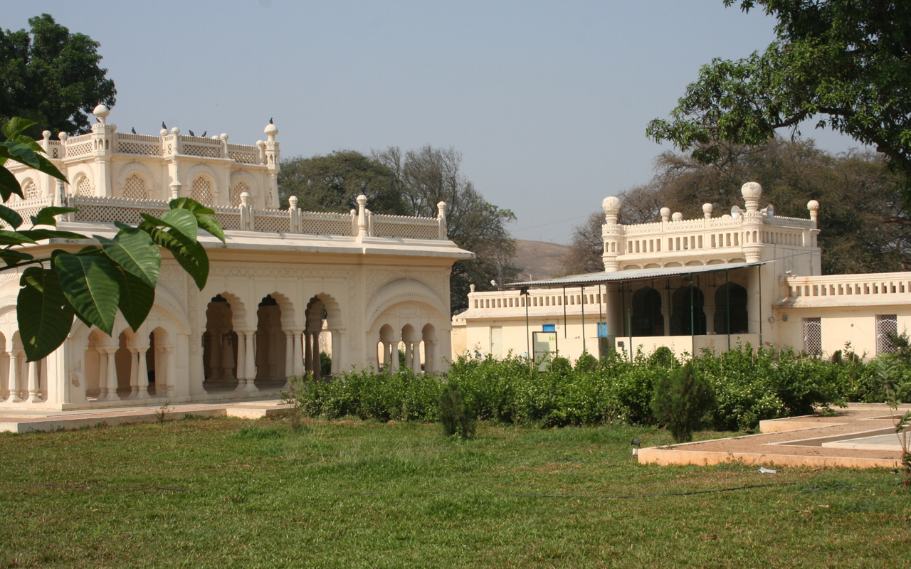 View of the campus- Maqbara and Masjid at the tomb of Chanda Bibi (aka Mah Laqa Bai), Nizam-era Urdu poet and courtesan. Moula Ali, Hyderabad. Built c. 1790. Easter Sunday, Apr '12.